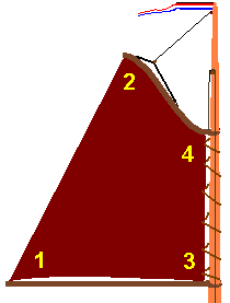 Rigging: the corners of a sail